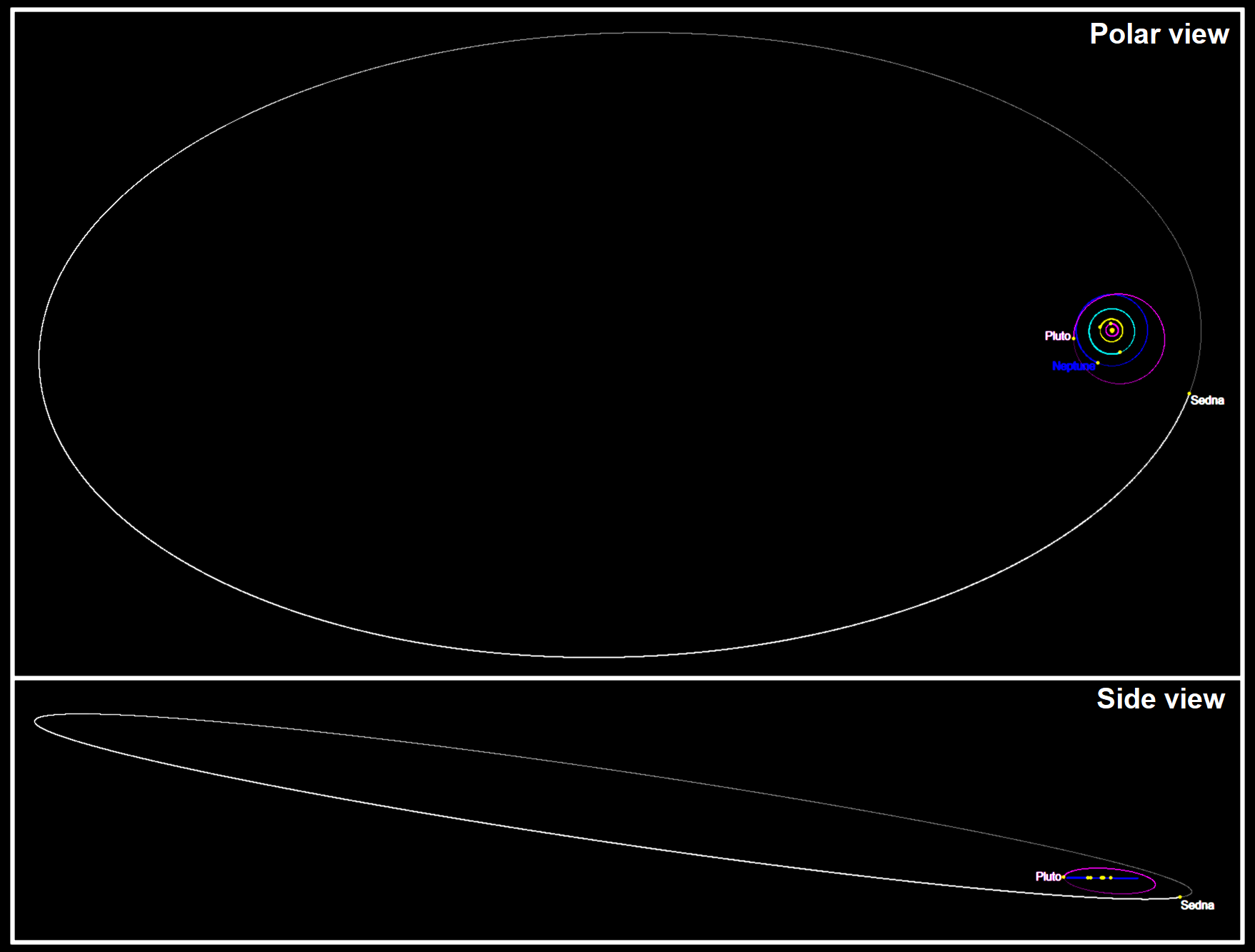 en:90377 Sedna orbit with solar system, and positions on Jan 1, 2017